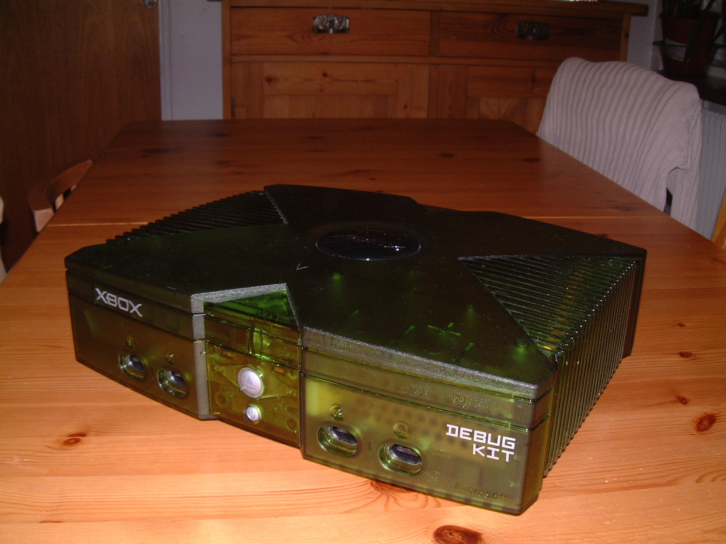 Xbox Debug Kit